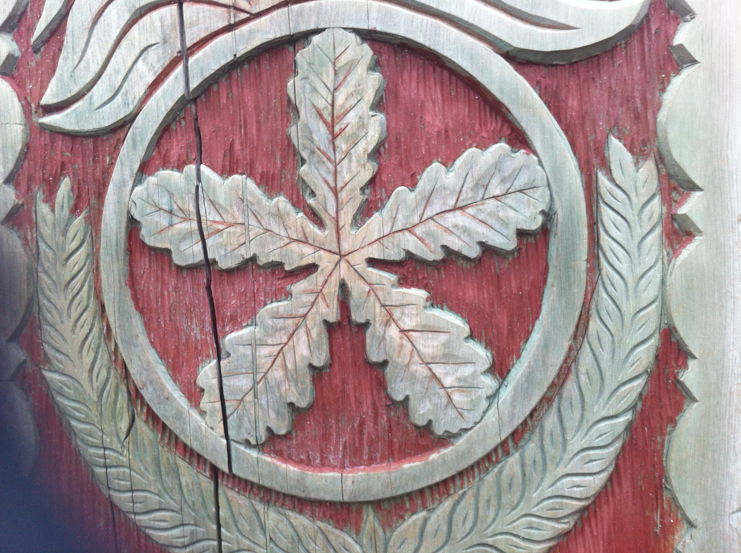 The picture depicts oak leaves decorating a traditional Transylvanian gate carved out of wood by László Józsa, a UBC alumnus to commemorate the flight of the Sopron Division from Hungary and their welcome by the University of British Columbia.